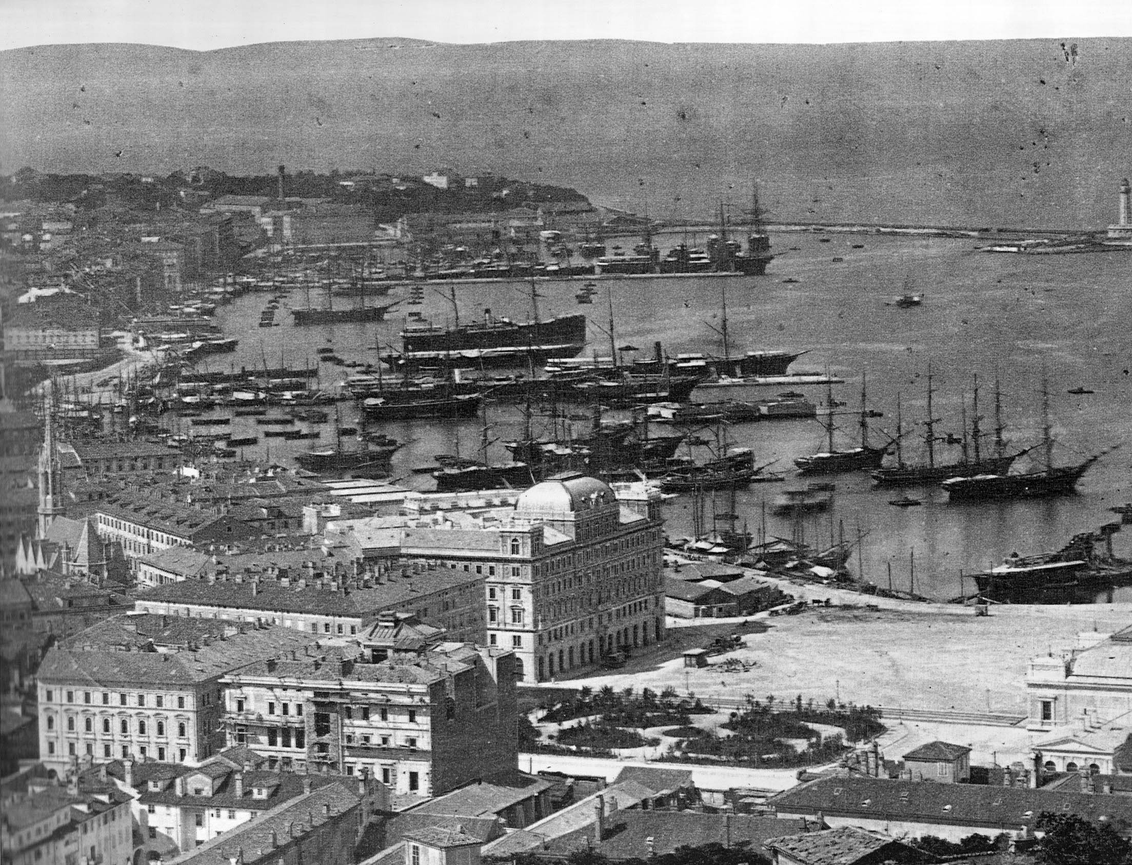 City of Triest in 1885.